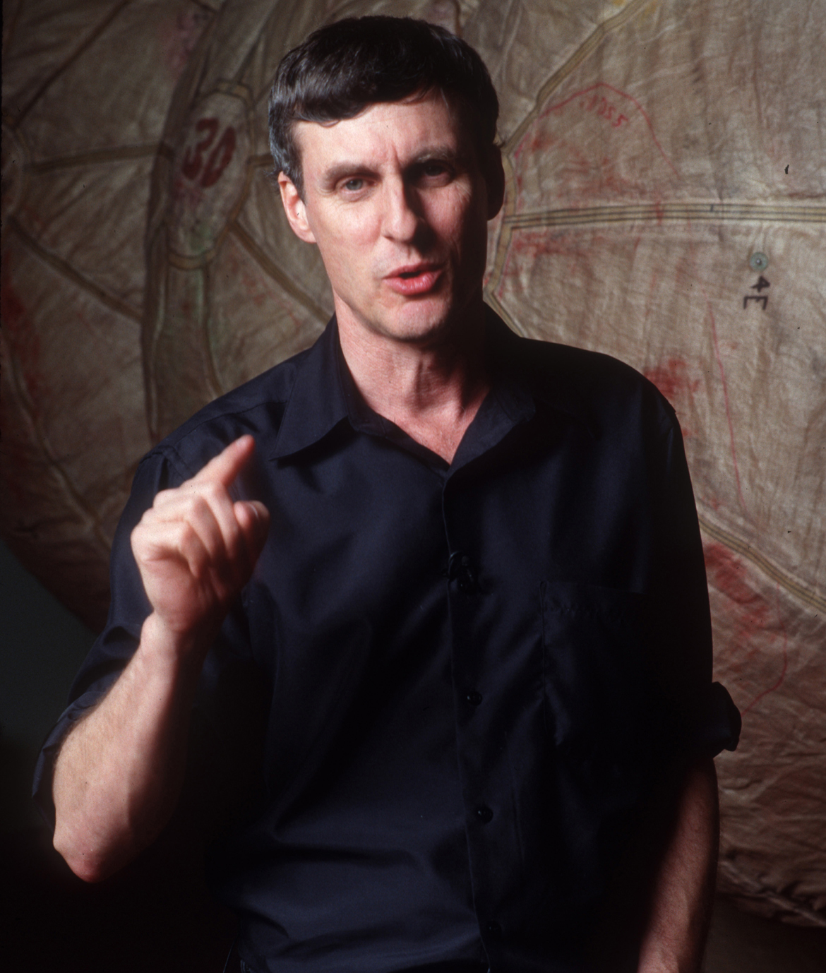 Steven W. Squyres is a professor of astronomy at Cornell University, Ithaca, N.Y., and the principal investigator for the science payload on NASA's Mars Exploration Rovers.